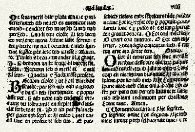 Excerpt from Meshari (The Missal), by Gjon Buzuku. Scanned.